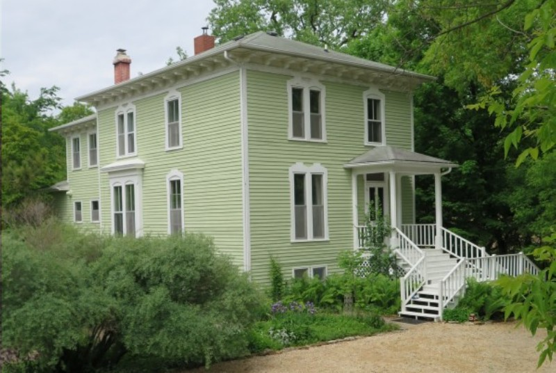 The First Congregational Parsonage in 2016